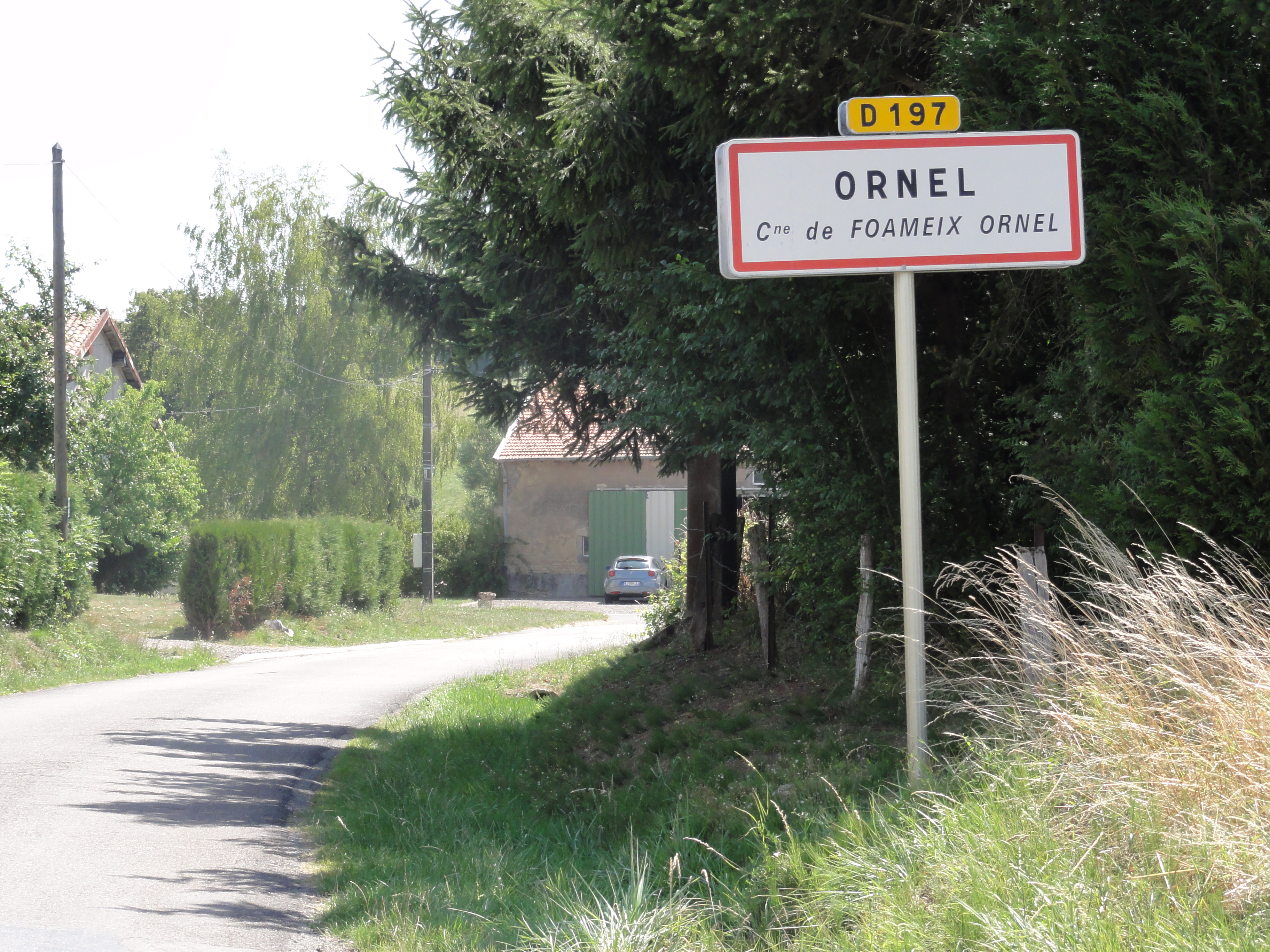 Foameix-Ornel (Meuse) city limit sign Ornel